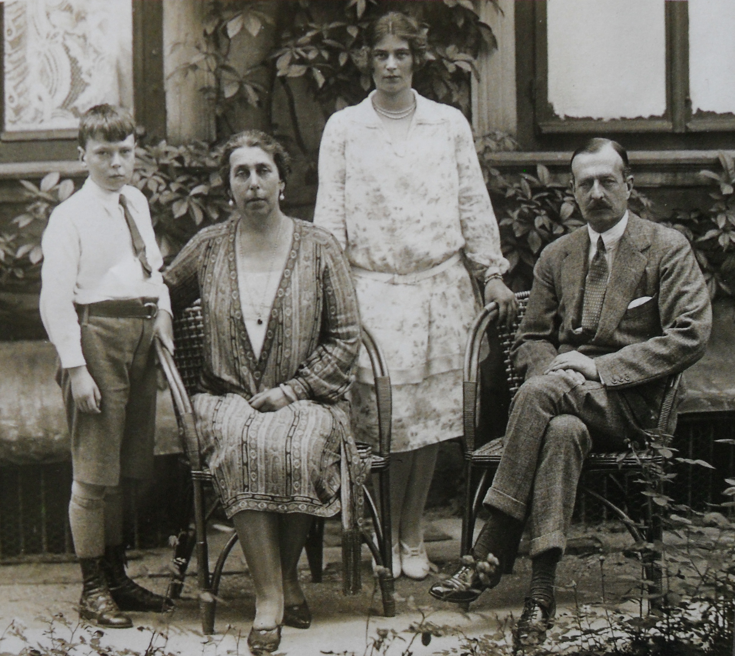 Grand Duke Kyril his wife and two youngest children